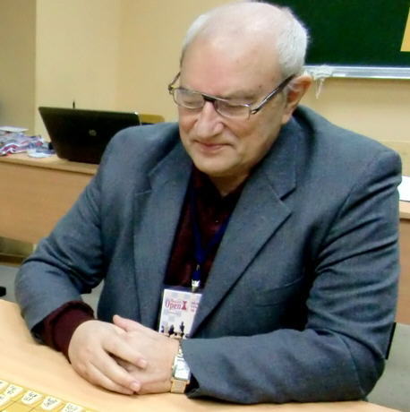 Igor Sinelnikov at Moscow Shogi Open